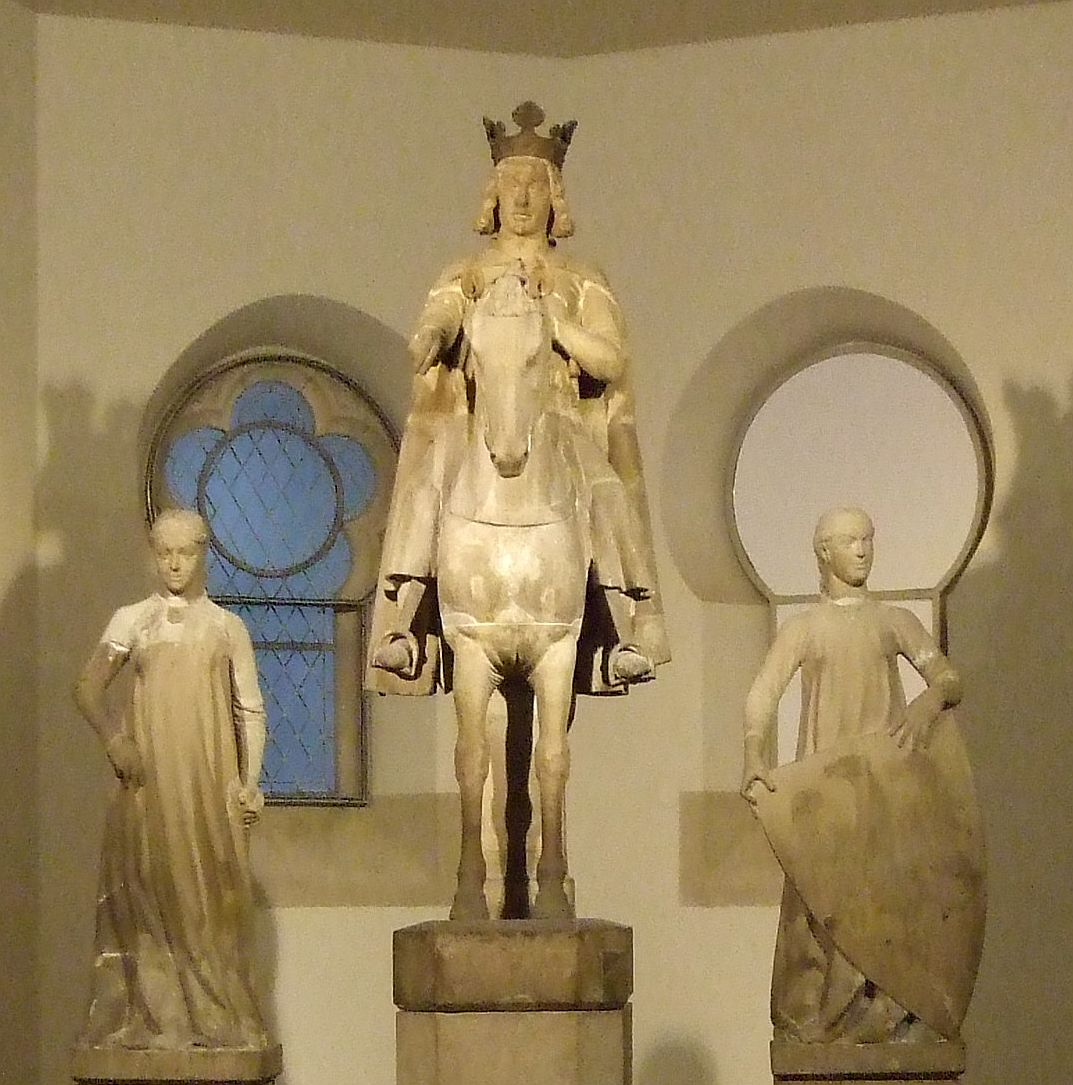 Horseman of Magdeburg with two companions, sandstone statues, about 1240-1250. At first on the Alter Markt (old market) in Magdeburg, now in the Kulturhistorisches Museum Magdeburg.